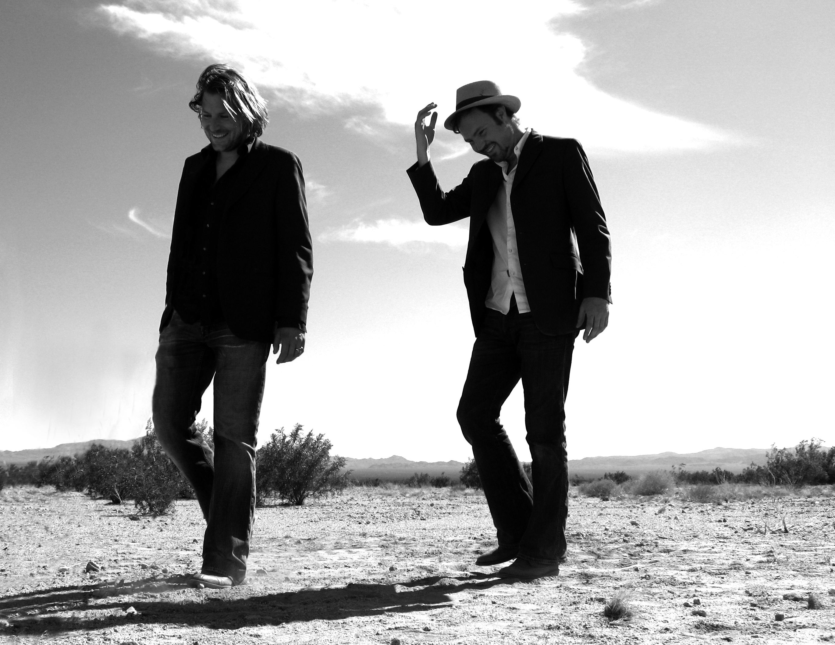 Chris and Thomas Summary Chris and Thomas